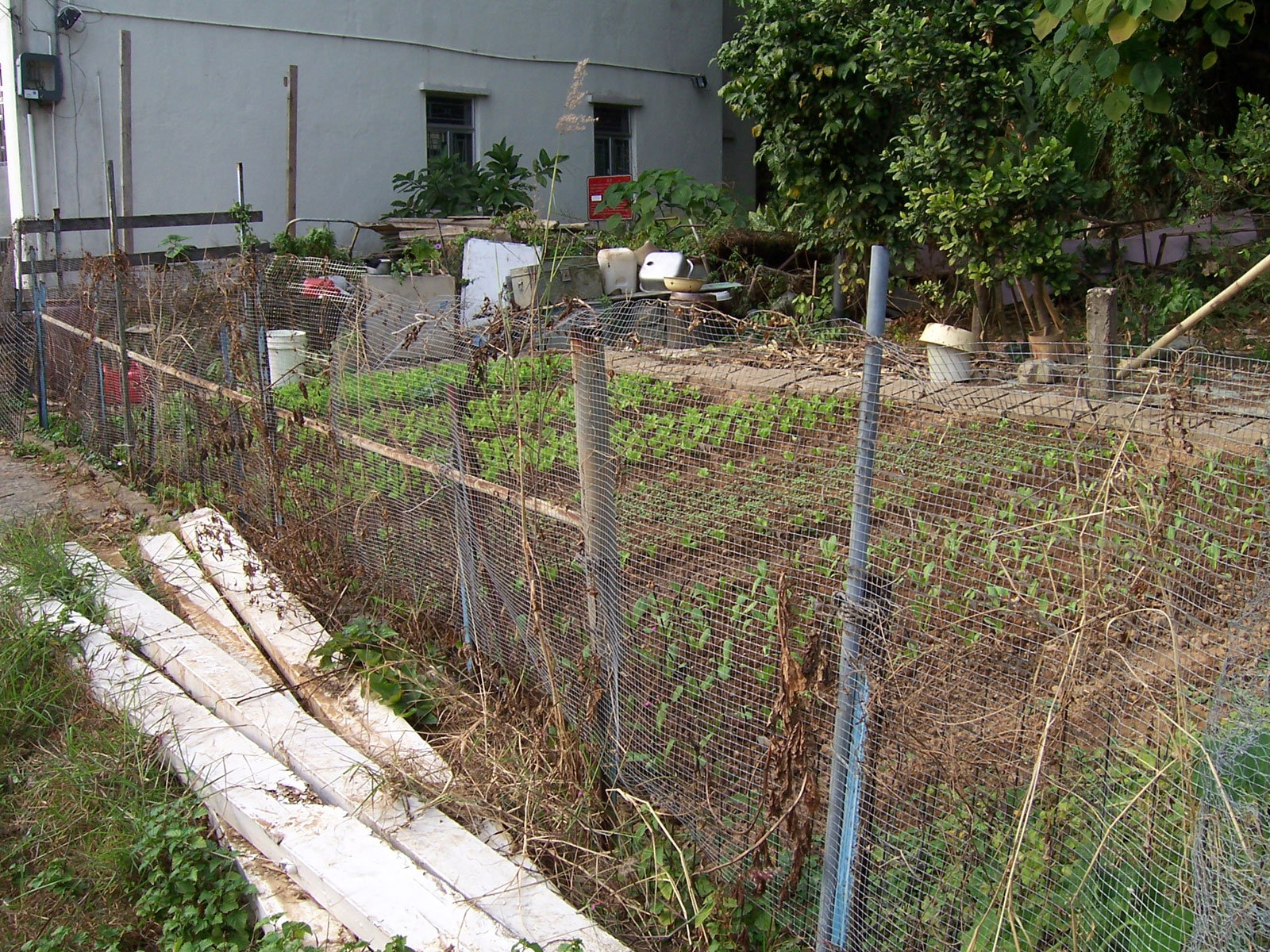 A vegetable garden at Tai O. Taken by Enoch Lau on 31 December 2005. As a courtesy, please let me know if you alter this image or this image description page. Original filename was 100_1030.JPG.